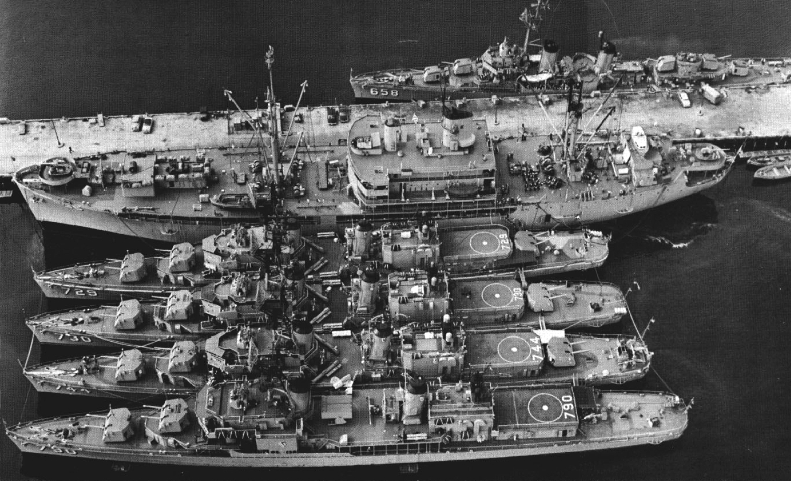 The U.S. Navy destroyer tender USS Bryce Canyon (AD-36) at Terminal Island, Long Beach, California (USA), circa in 1962. Alongside are the destroyers USS Lyman K. Swenson (DD-729), USS Collett (DD-730), USS Blue (DD-744), and USS Shelton (DD-790). USS Colahan (DD-658) is moored on the other side of the pier. This photo shows the three U.S. Navy post-WWII destroyer classes, Fletcher-class (Colahan), Allen M. Sumner-class (Lyman K. Swenson, Collett, Blue) and Gearing-class (Shleton). Colahan received almost no modernization, as most Fletcher-class destroyers. Lyman K. Swenson, Collett and Blue received the FRAM II-modernization, Shelton FRAM I.